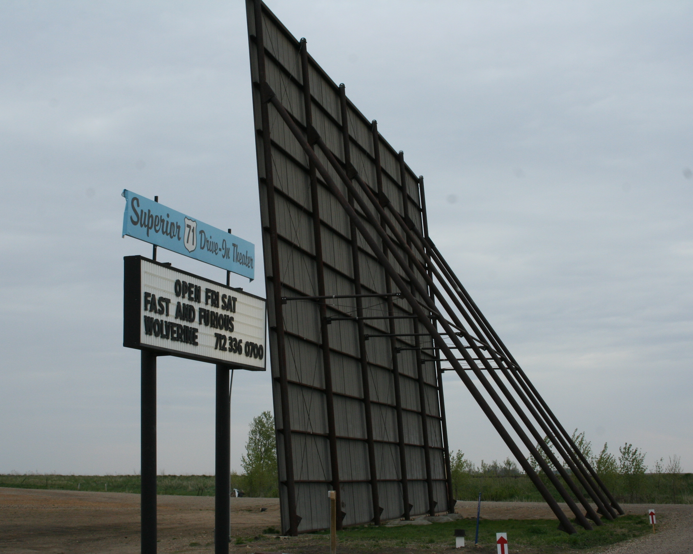 Movie screen and marquee at the Superior Drive-In Theatre in Dickinson County, Iowa, on U.S. Route 71 and Iowa State Highway 9 south of Jackson, Minnesota.